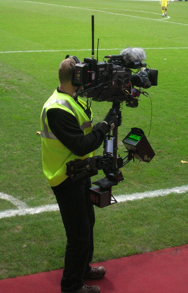 Camera - Hearts vs. Hibernian - 2006